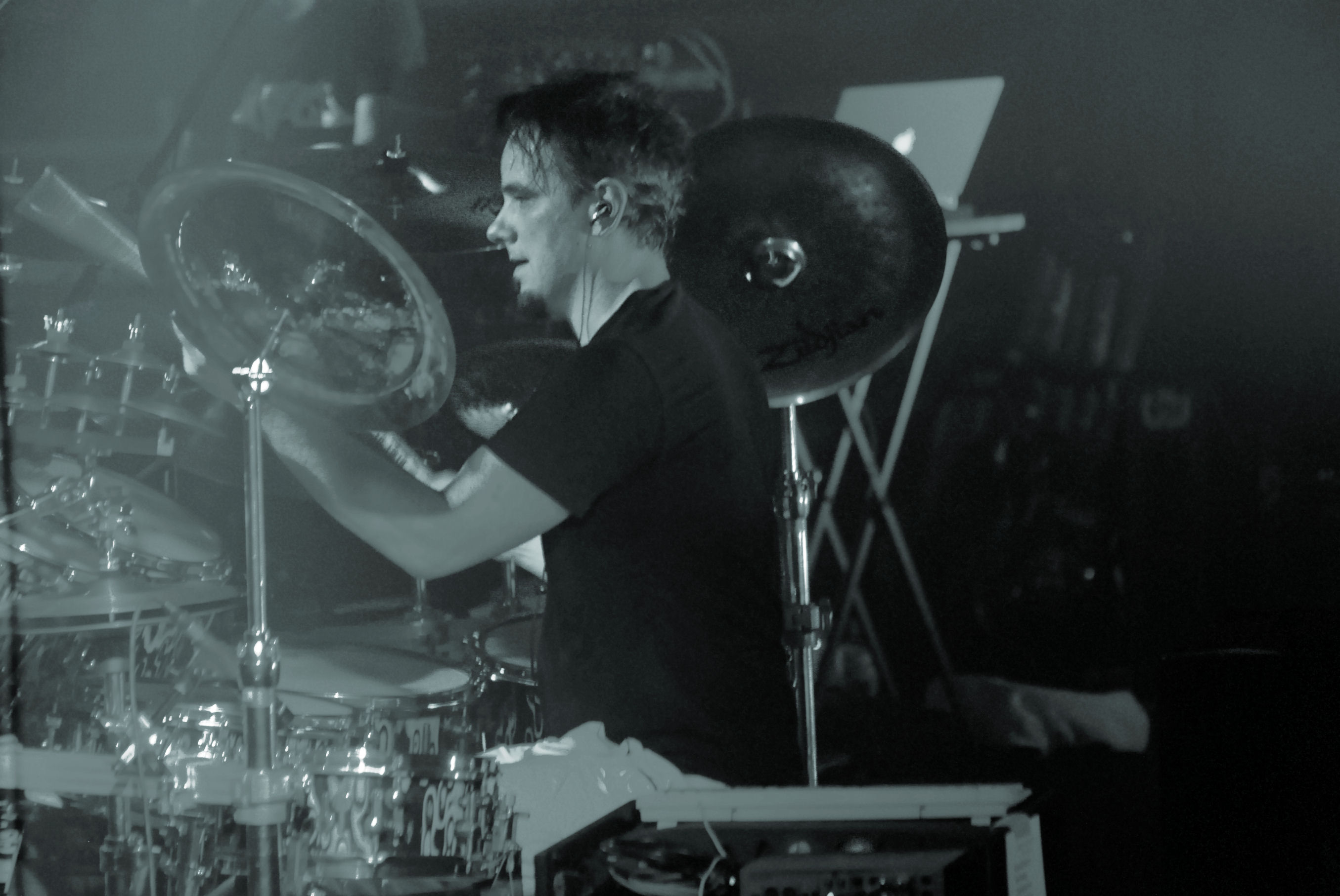 Gavin Harrison from Porcupine Tree during concert in TS Wisła in Kraków To zdjęcie powstało dzięki współpracy z Rock-Servis